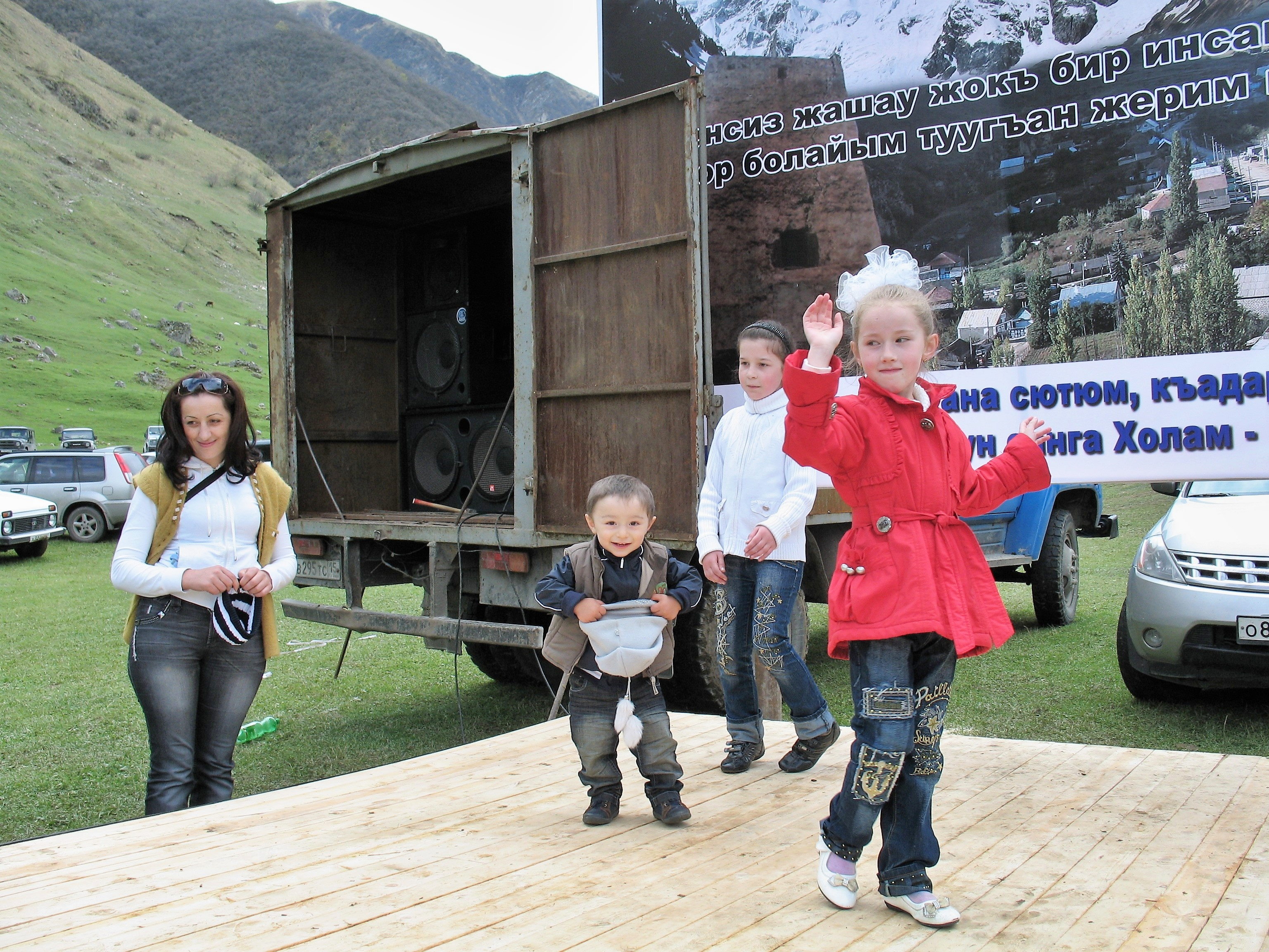 Balkars fest in Bezengi (Kabardino-Balkaria) 22. 5. 2011